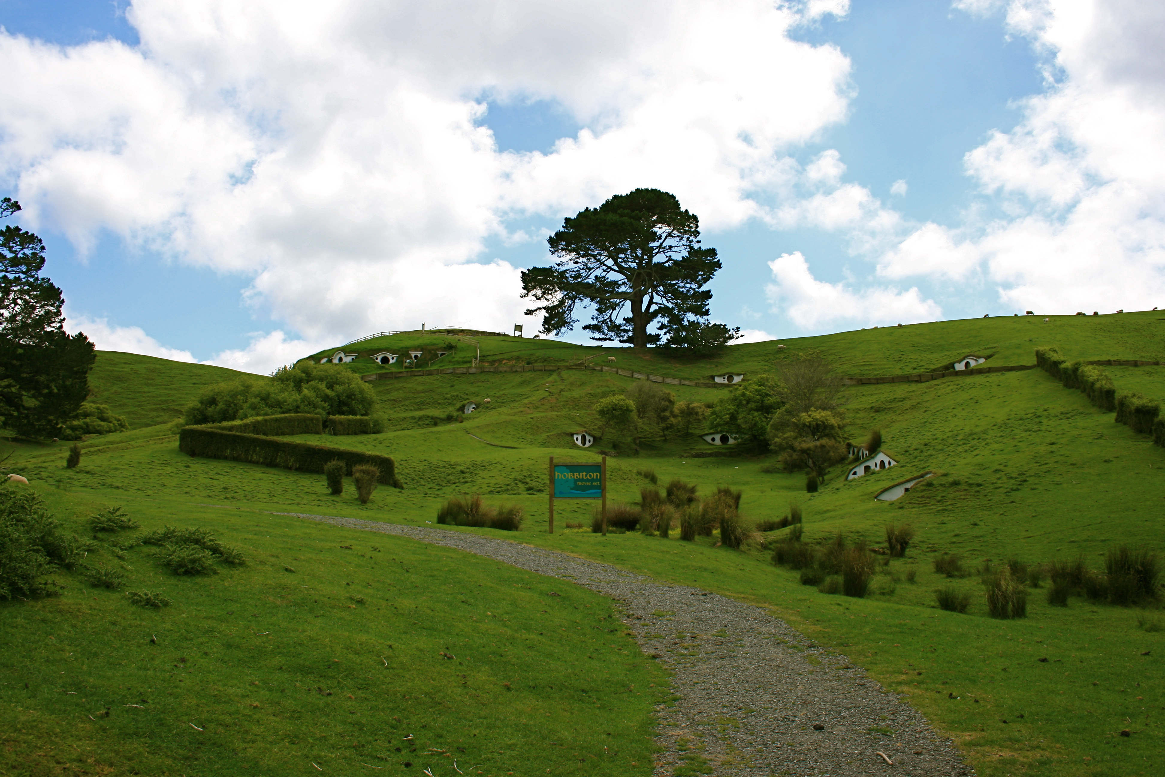 We stopped to visit the Hobbiton movie set near Matamata